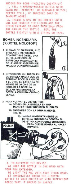 Description on how to make Molotov cocktail in CIA's "Freedom Fighters Manual"